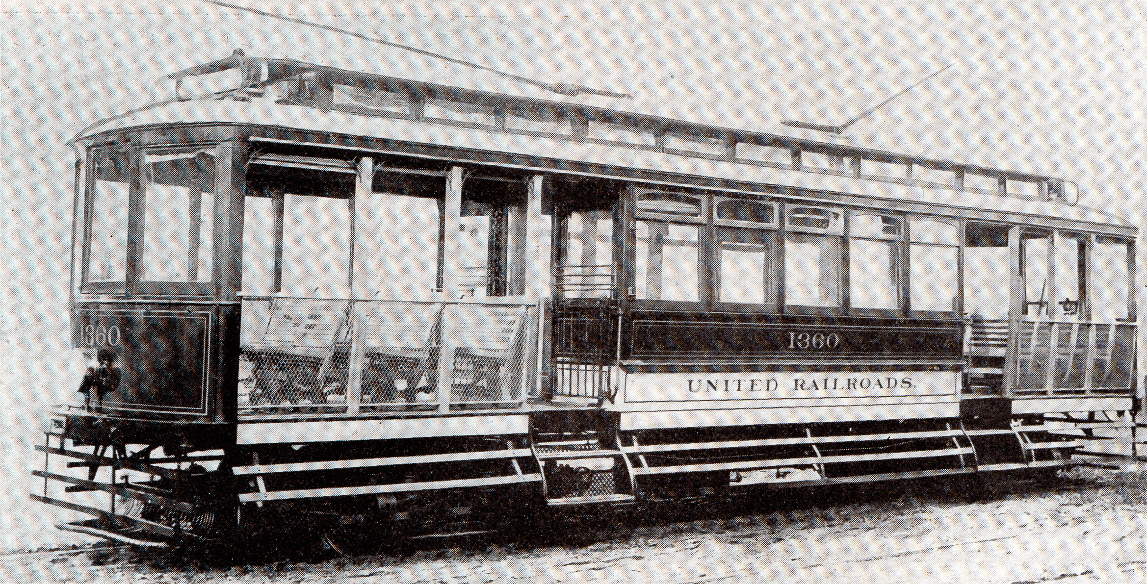 Car 1360 of the United Railroads of San Francisco. Caption: STANDARD CAR FOR UNITED RAILROADS OF SAN FRANCISCO.